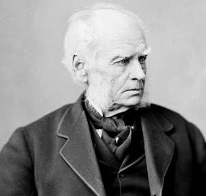 Seymour, Benjamin Hon., Senator, 1806 - 1880.